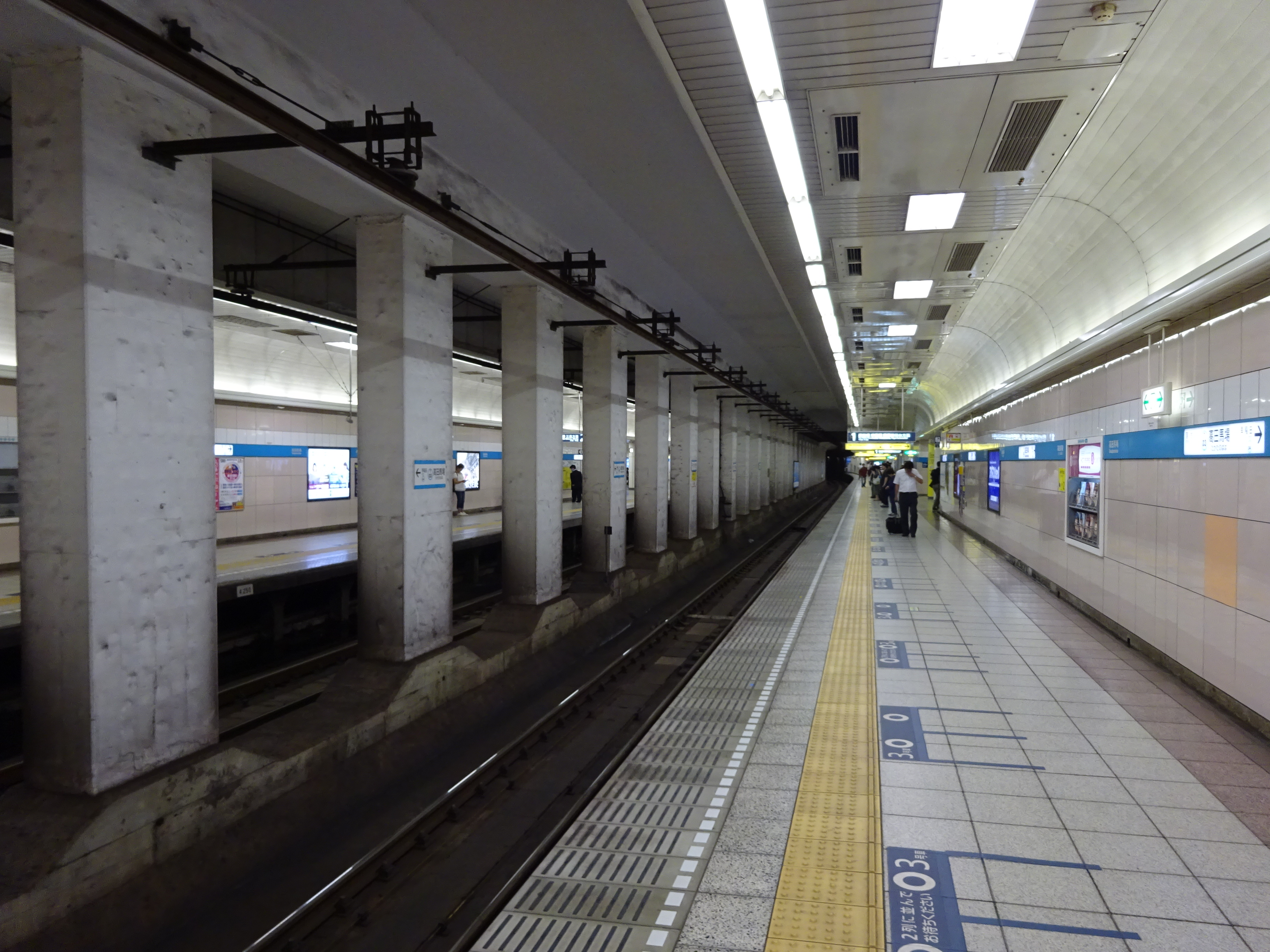 The Tokyo Metro Tozai Line platforms at Takadanobaba Station in Tokyo